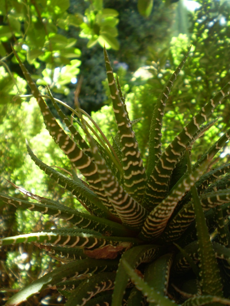 Haworthia attenuata